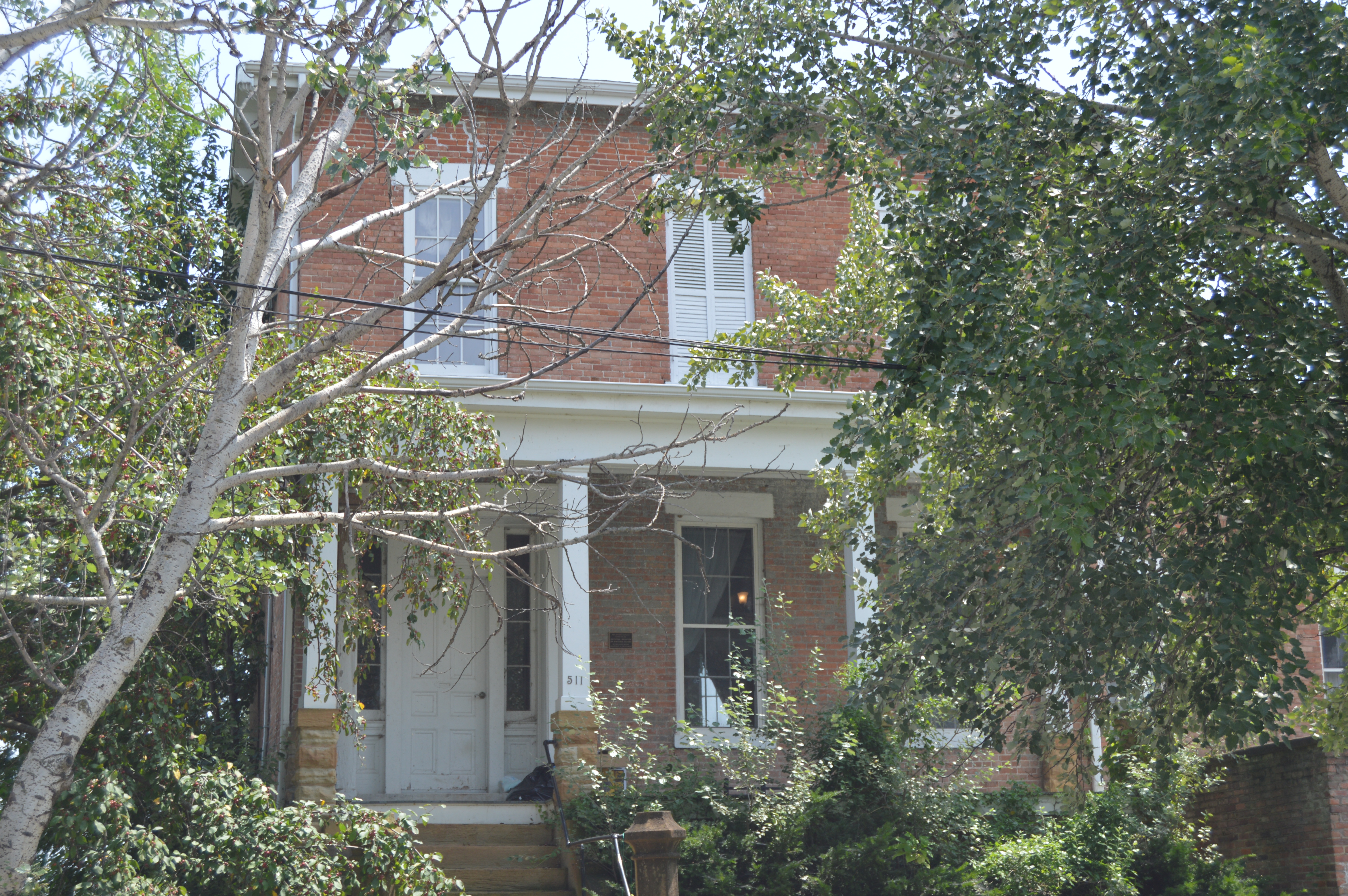 Front of the Gen. William Worth Belknap House, located at 511 N. Third Street in Keokuk, Iowa, United States. Built in 1854 for William W. Belknap, it is listed on the National Register of Historic Places.